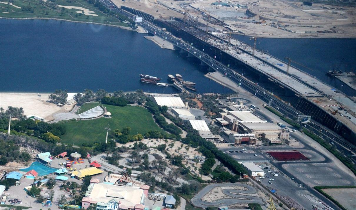 This is a photo showing the New Al Garhoud Bridge, crossing Dubai Creek in Dubai, United Arab Emirates, on 18 October 2007. This photo was taken from a helicopter ride courtesy of Nakheel.